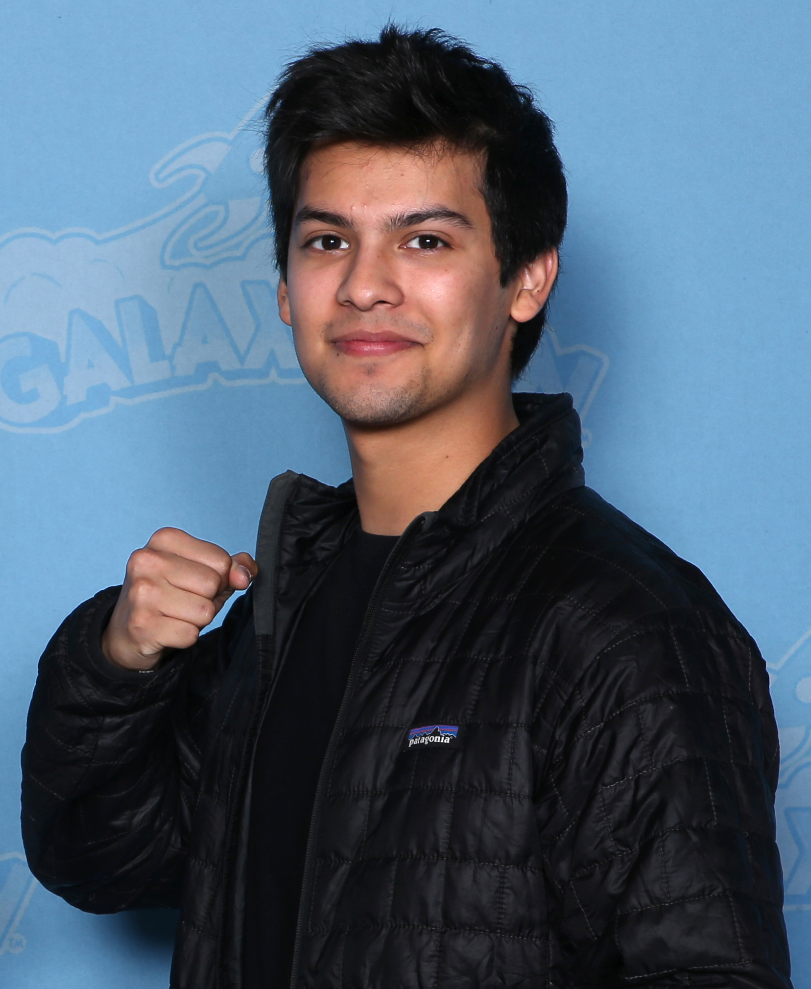 Xolo Mariduena at GalaxyCon Minneapolis in 2019